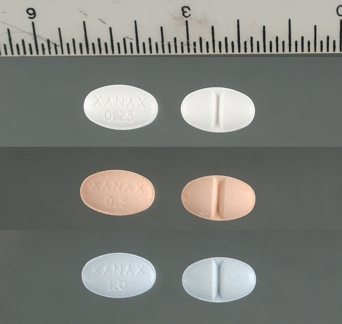 Xanax 0.25, 0.5 and 1 mg scored tablets